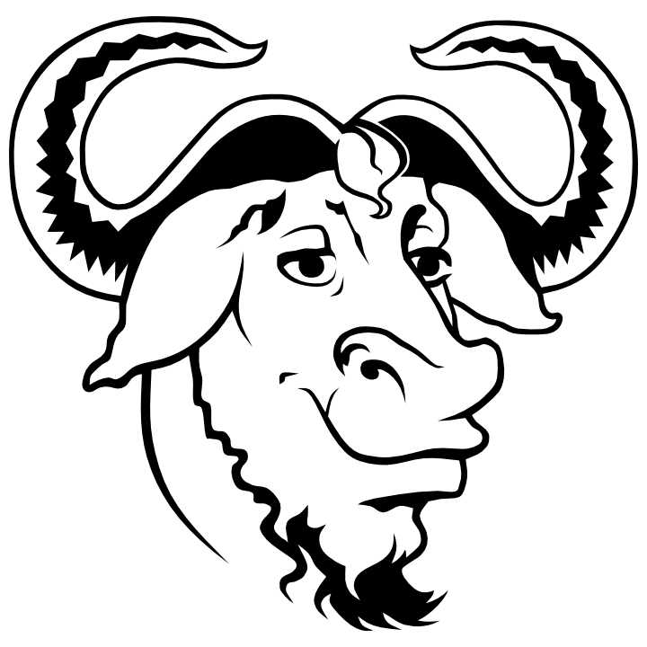 A Bold GNU Head